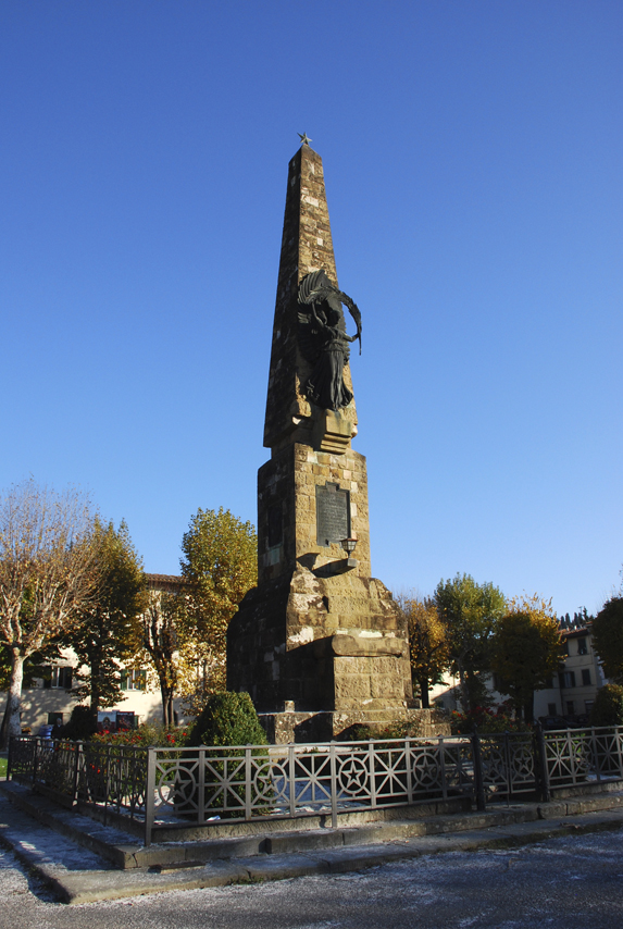 Piazza Acciaiuoli (square), Galluzzo, Florence, Italy. Obelisk: monument to victims of World War I. Statue: La Vittoria.